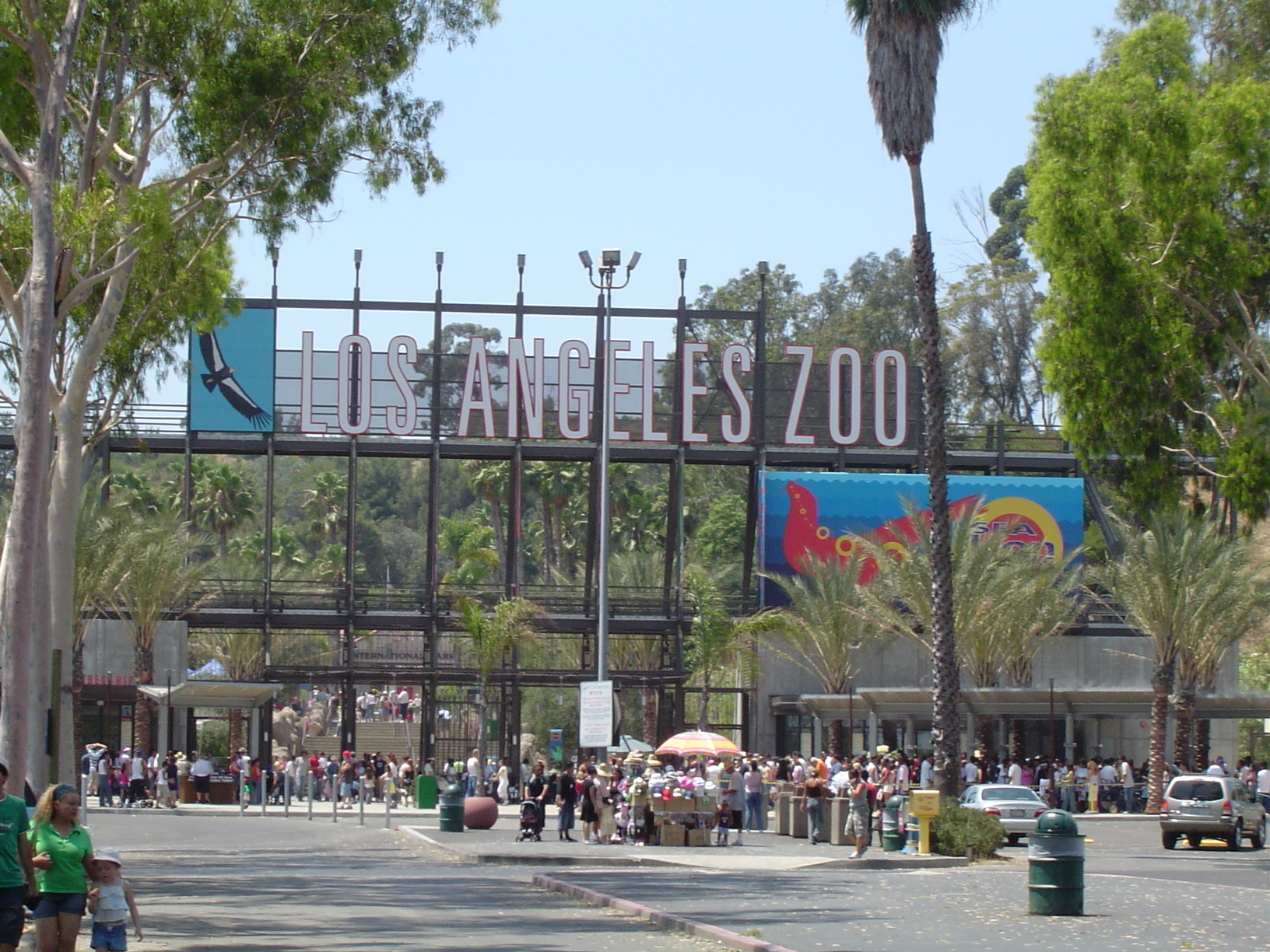 Los Angeles Zoo - A summer crowd of LA Zoo, on August 7, 2005